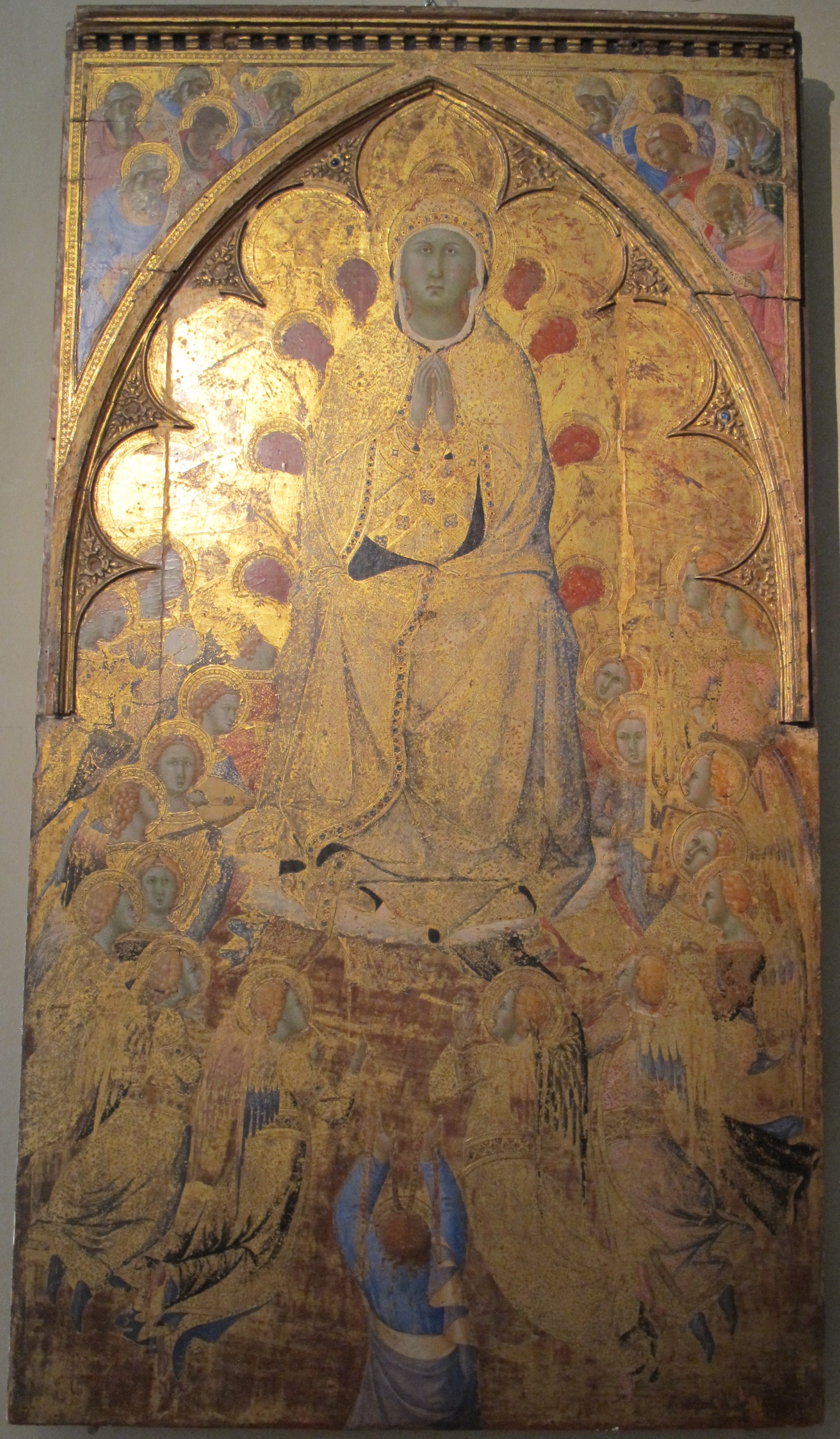 Painting in the National Pinacotheque, Siena